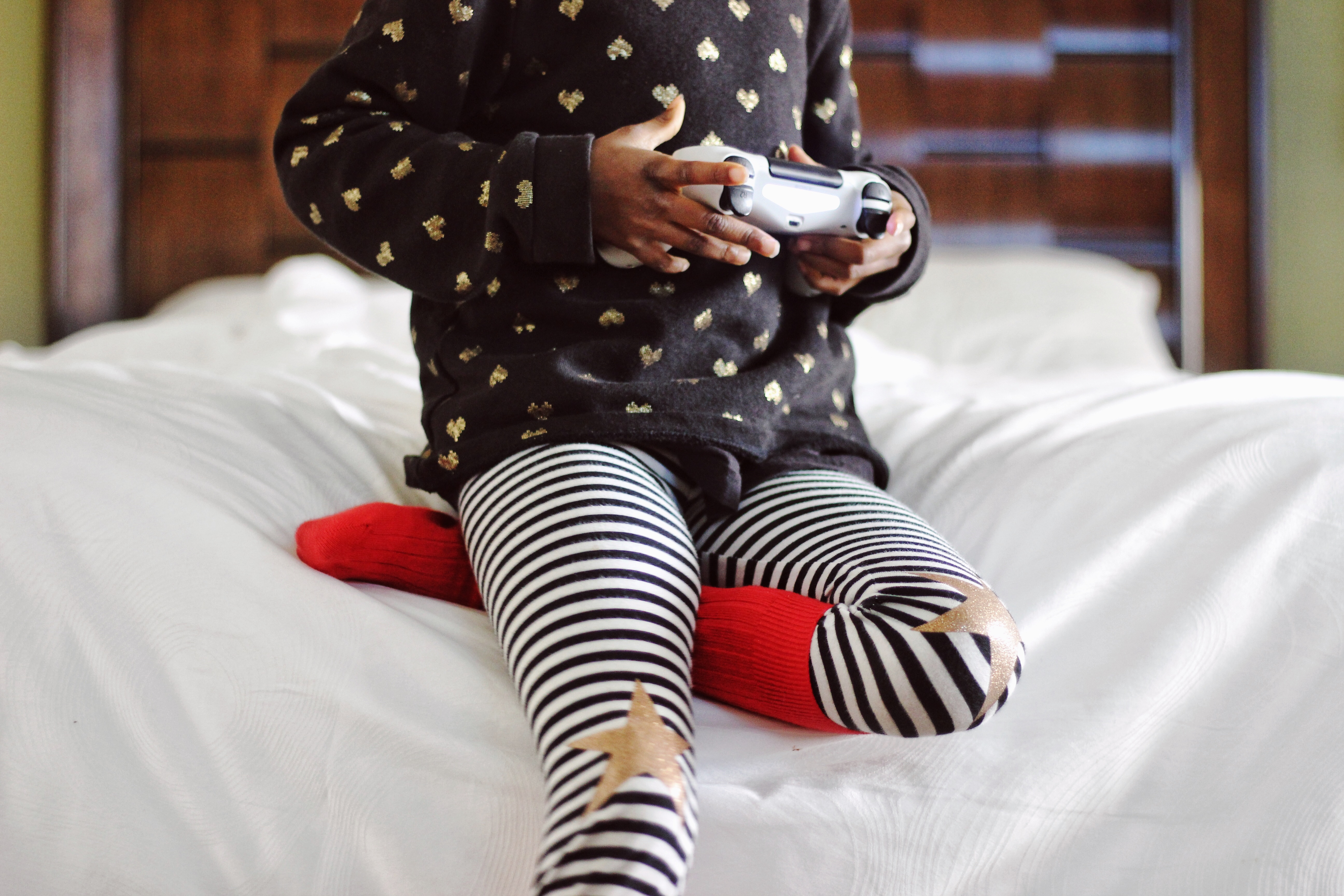 Palm Springs, United States